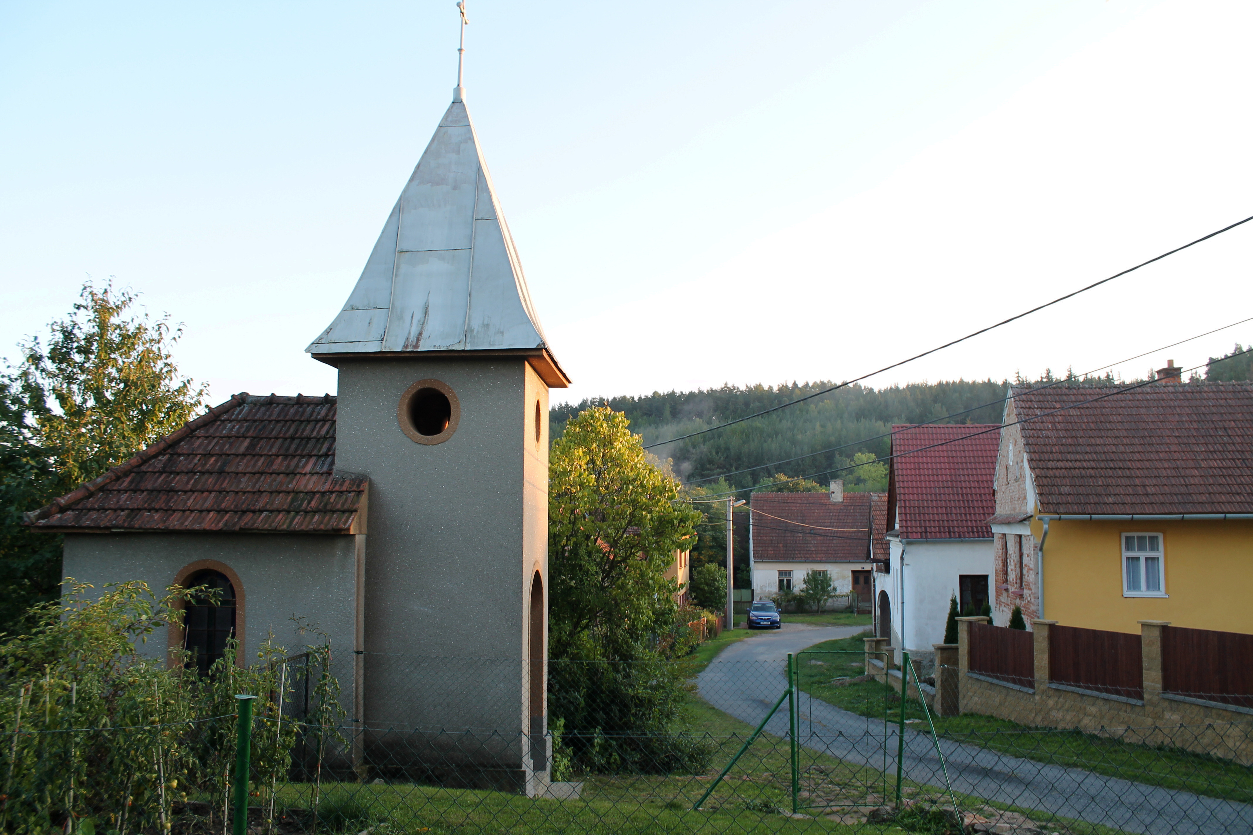 Chapel of Saint Wenceslaus, Ostrov, Žďárec, Brno-Country District, Czech Republic